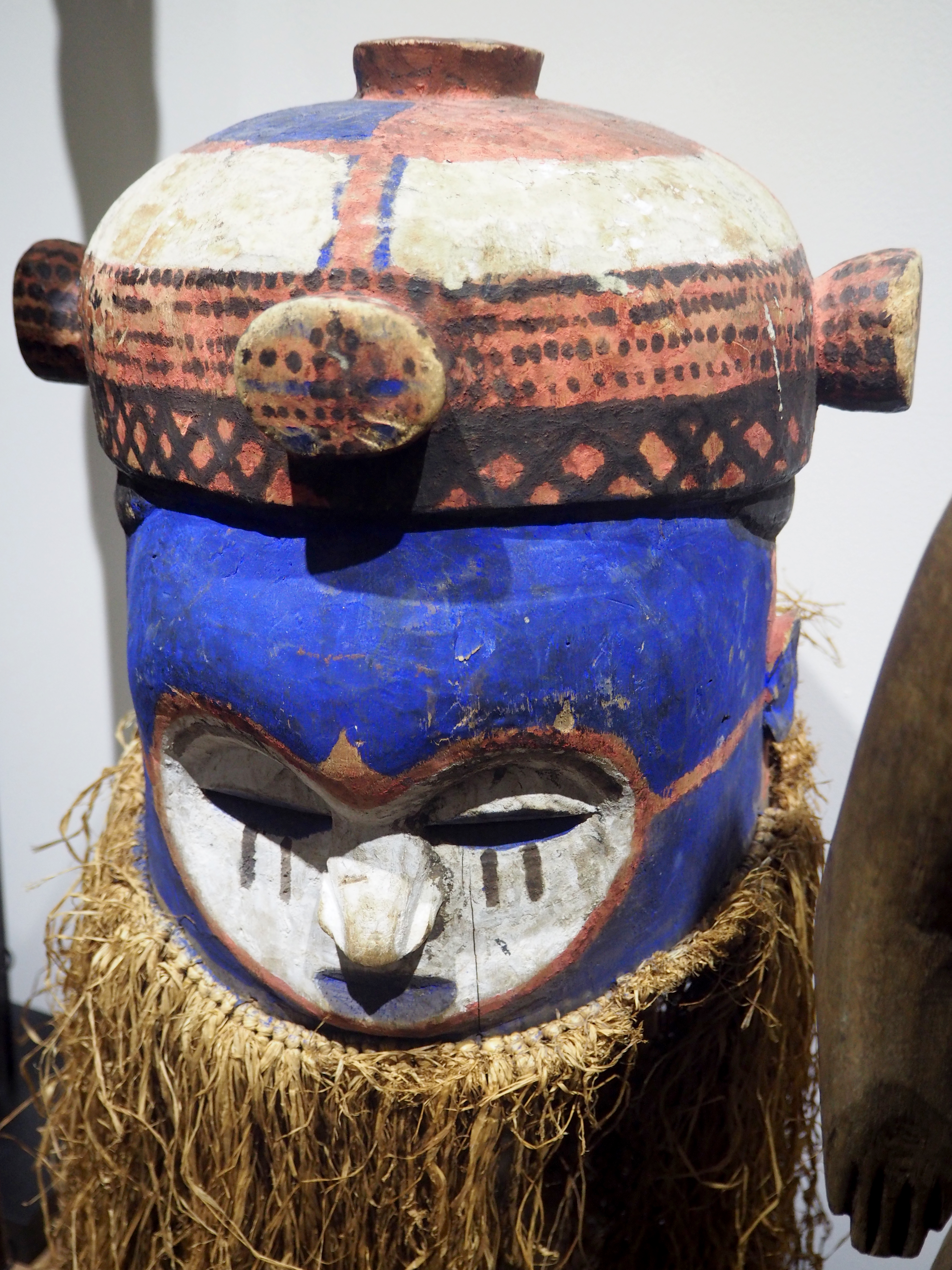 Beautiful old brightly painted with blue, pink, white and black with stained kaolin. Still wearing its raffia ceremonial head cover but part of this has been cut. If I were keeping this mask I would remove the raffia. Measures Body of mask 33 x 28 x 19cm Overall height with raffia is 58cm. Price AUD 2,500 for further information: Ann Porteus Sidewalk Tribal Gallery 19-21 Castray Esplanade, Battery Point 7004 Hobart Tasmania Australia +613 62240331 ABN:99 900 255 141